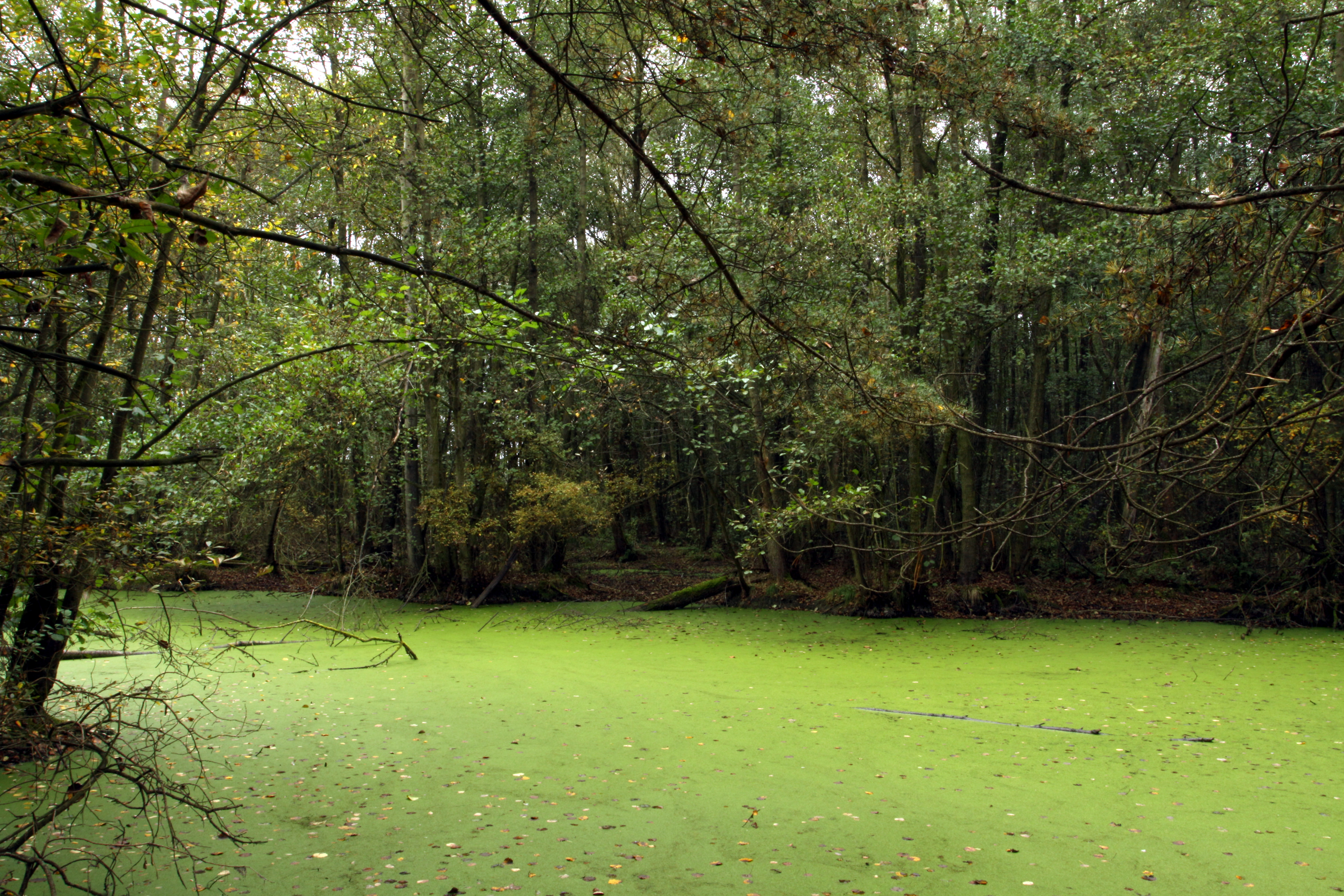 Natural monument Pamětník in Hradec Králové District, Czech Republic - Google Maps - Google Earth